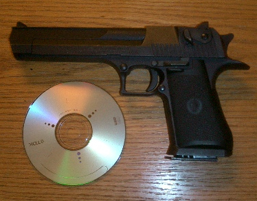 A Desert Eagle chambered in .357 Magnum, with a CD for scale. Picture taken by self on 7/31/07.